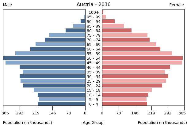 A population pyramid illustrates the age and sex structure of population and may provide insights about political and social stability, as well as economic development. The population is distributed along the horizontal axis, with males shown on the left and females on the right. The male and female populations are broken down into 5-year age groups represented as horizontal bars along the vertical axis, with the youngest age groups at the bottom and the oldest at the top. The shape of the population pyramid gradually evolves over time based on fertility, mortality, and international migration trends.